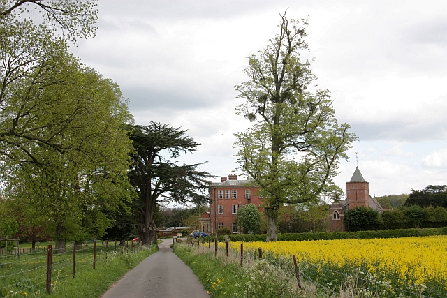 Approach to Canon Frome Court, Herefordshire, from the west, with the parish church of St James on the right